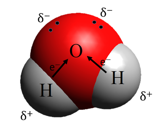 Dipole molecule water